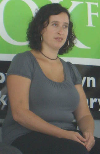 Writer Anya Ulinich at the 2009 Brooklyn Book Festival.